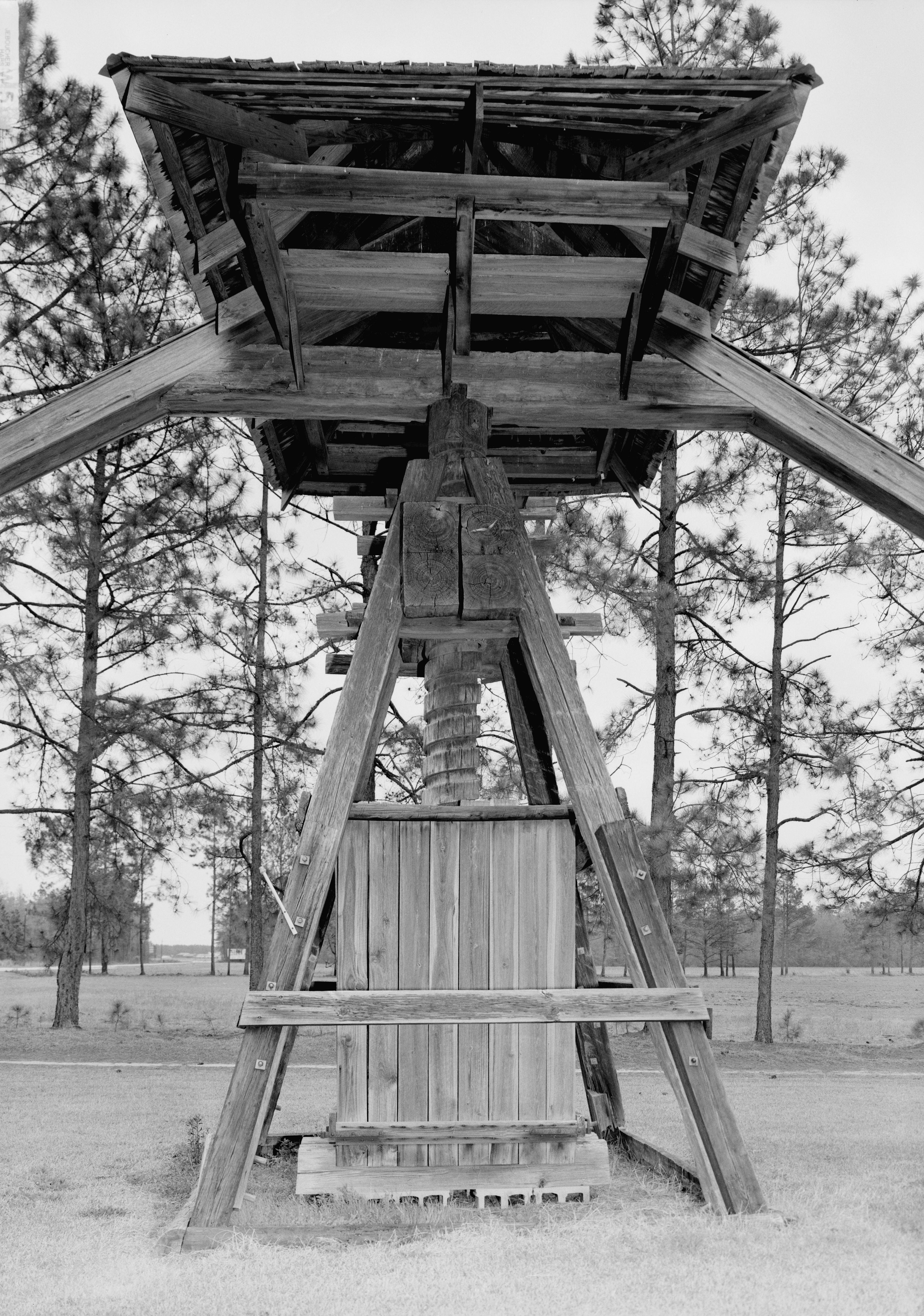 Cotton Press, (Detail) Near Routes 917 & 38, moved from Berry's Crossroad, Latta vicinity (Dillon County, South Carolina).